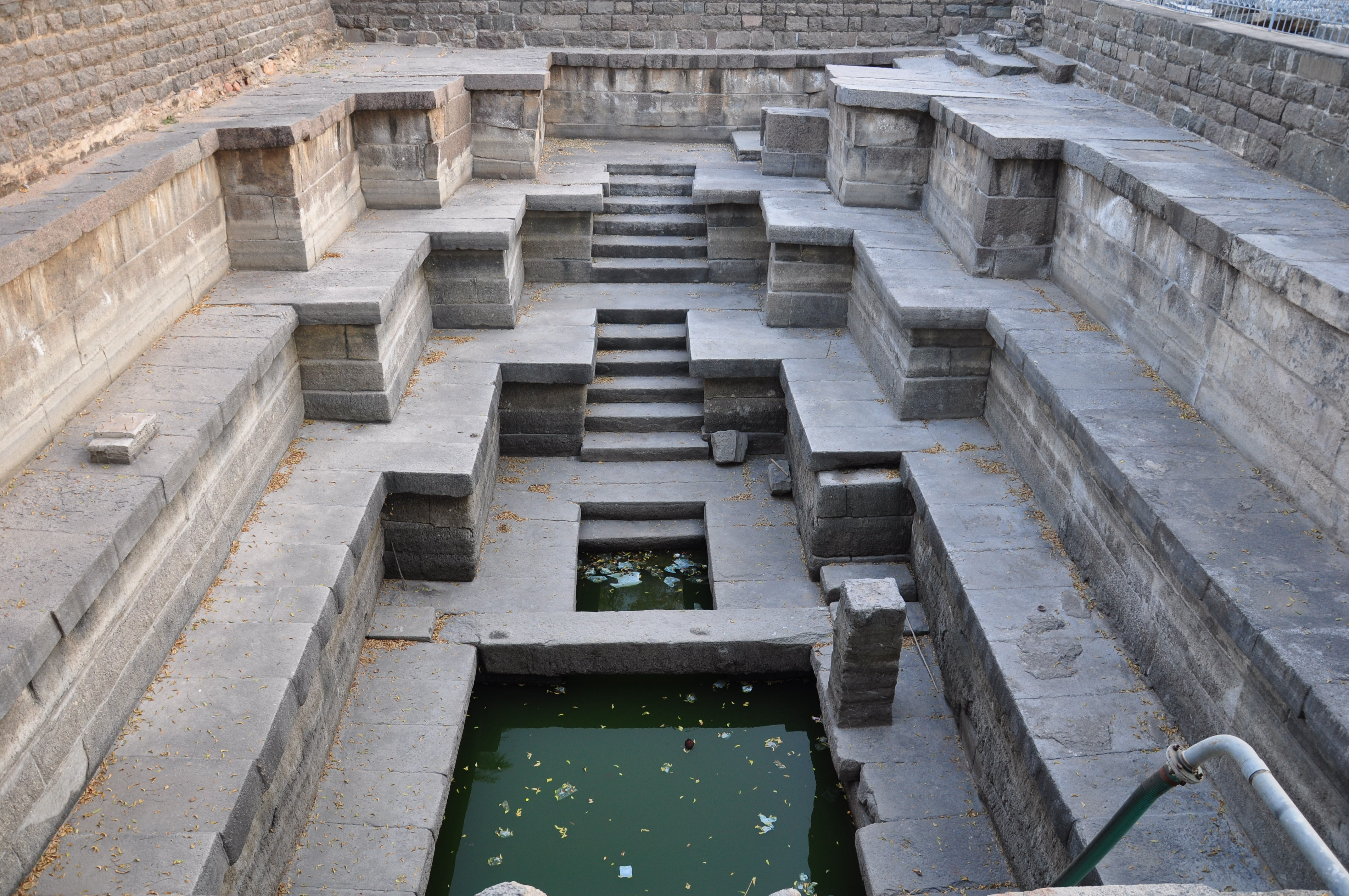 Temple pond on the left side of the Thousand Pillar Temple